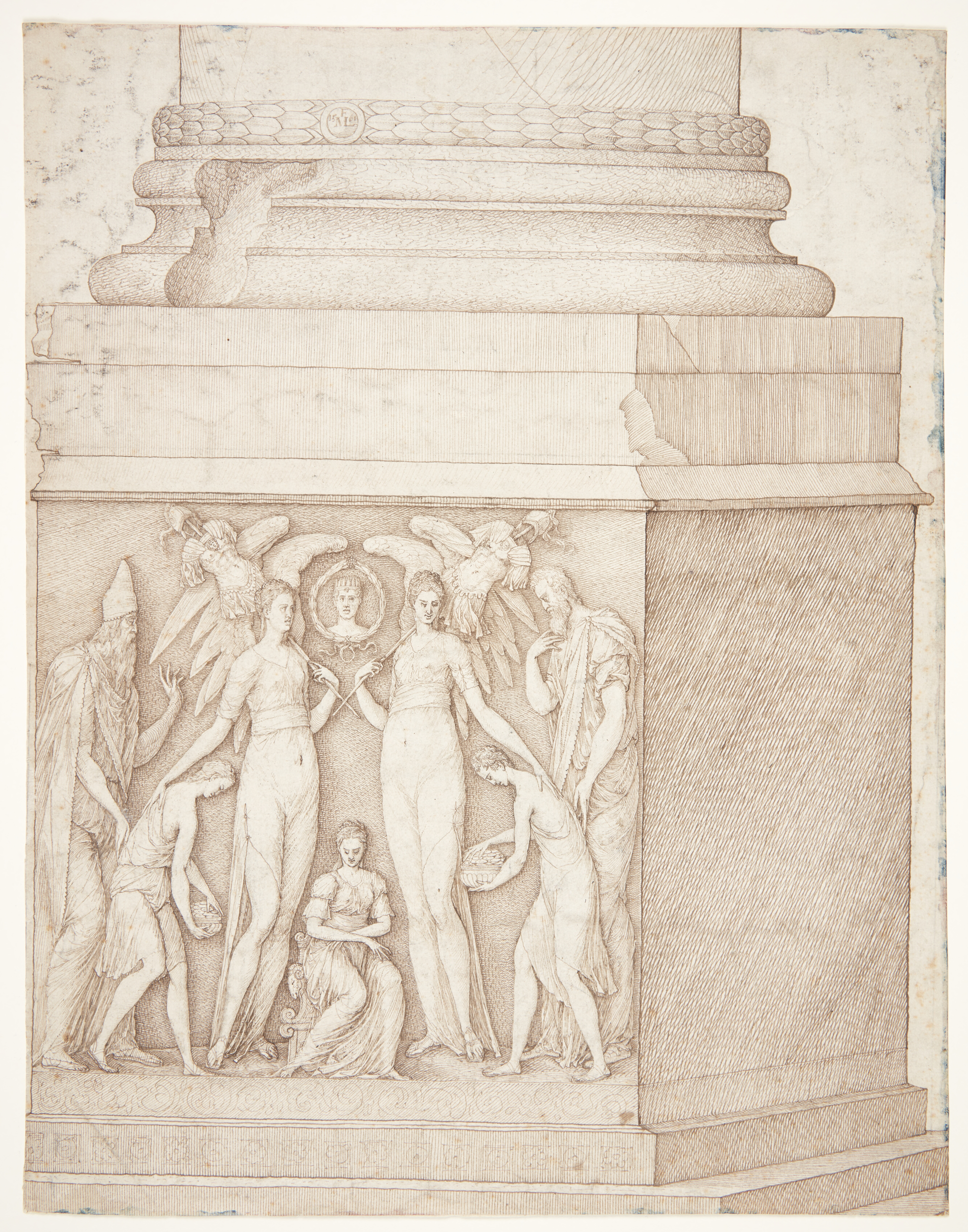 The Sculptured Pedestal of a Column. Pen and brown ink. 434x335 mm Before 1887 Inv. no.: KKSgb5473